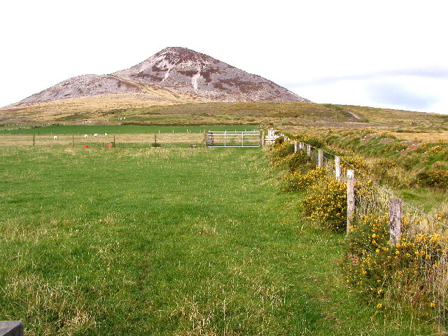 Great Sugar Loaf, County Wicklow, Ireland